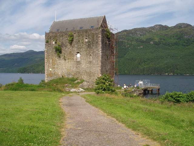 Carrick Castle, Loch Goil, Argyll, Scotland